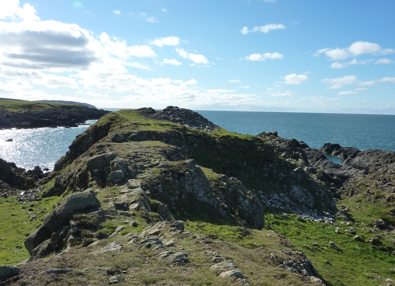 Doon Castle Broch, Ardwell Point, Dumfries and Galloway, Scotland. View from northnortheast.